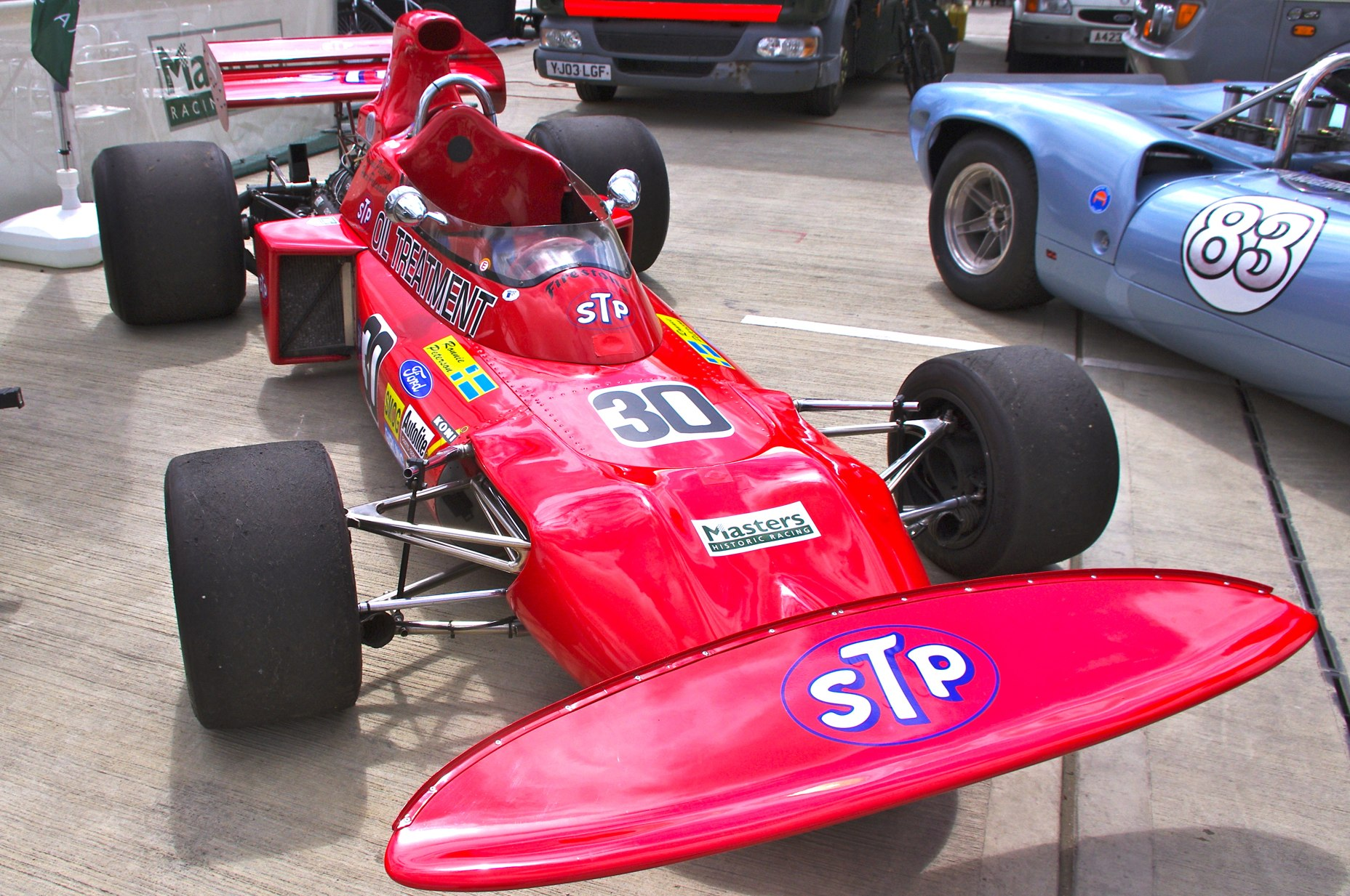 Silverstone Classic 2011